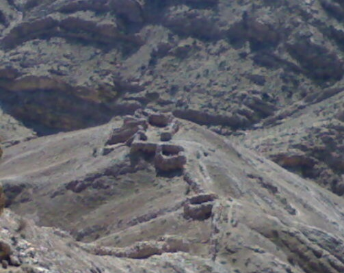 Part of Zahak Kitchen, an ancient stronghold on a mountain in the south of Fasa, Fars Province, Iran